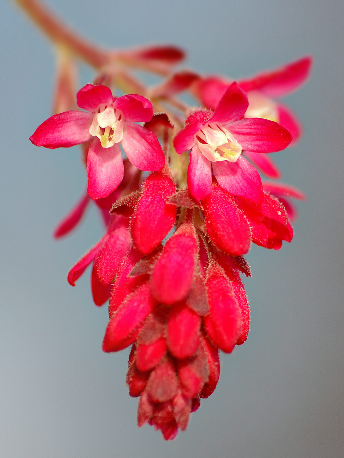 This image shows a Ribes sanguineum blossom.